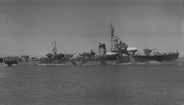 HIJMS MSC-21 (No.19 class minesweeper)